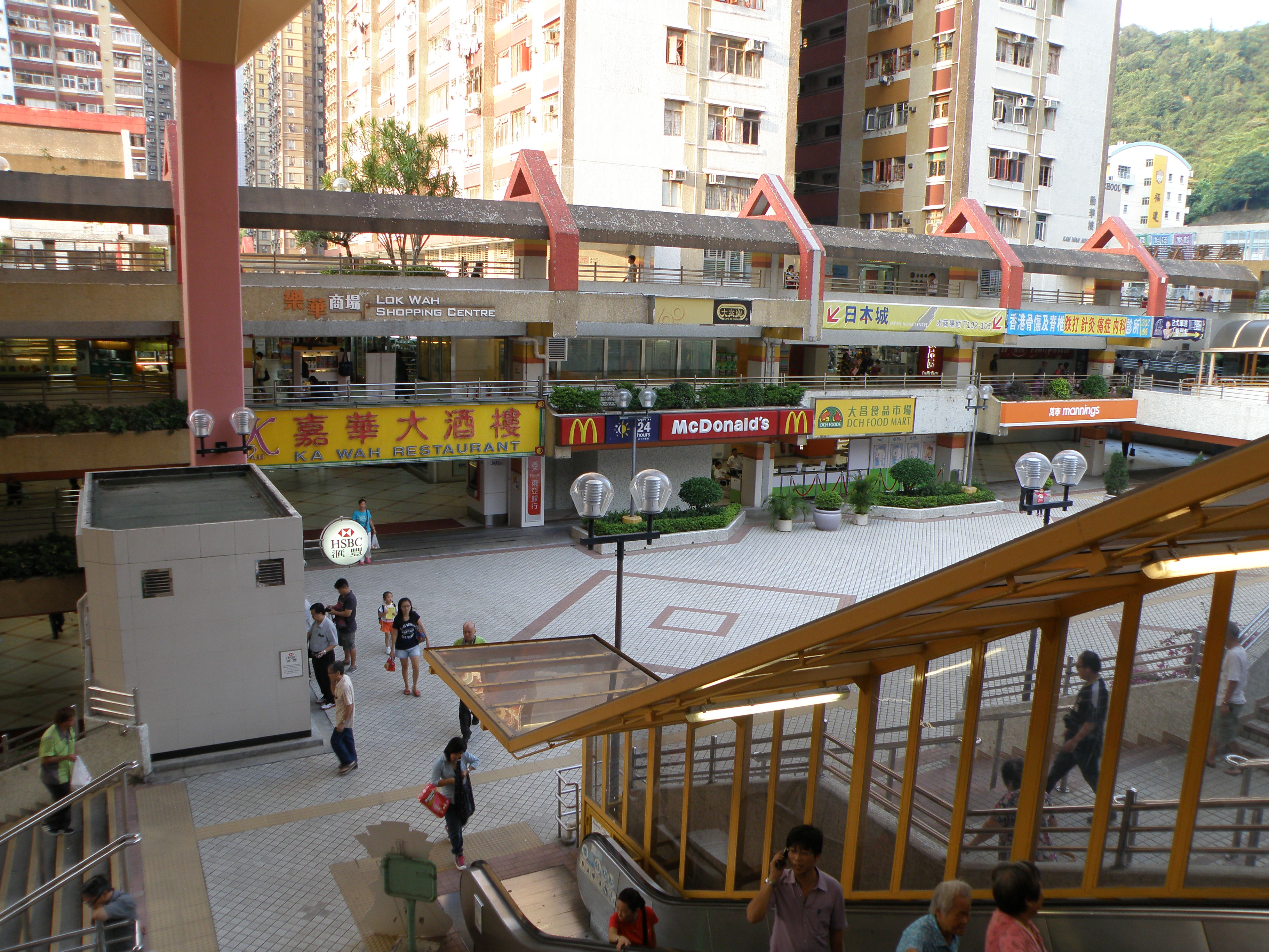 Lok Wah Shopping Centre in Jordan Valley, Hong Kong.